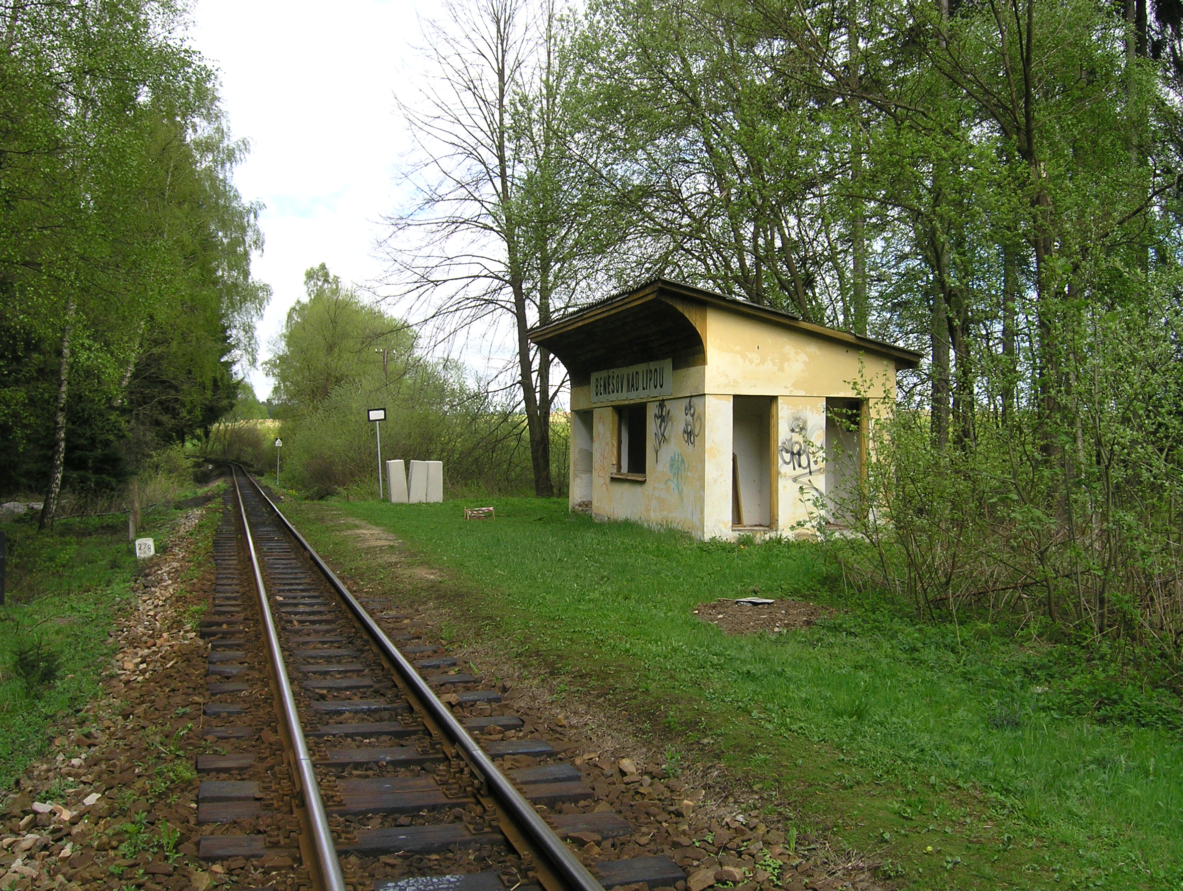 Railway stop Benešov, part of Černovice village, Czech Republic